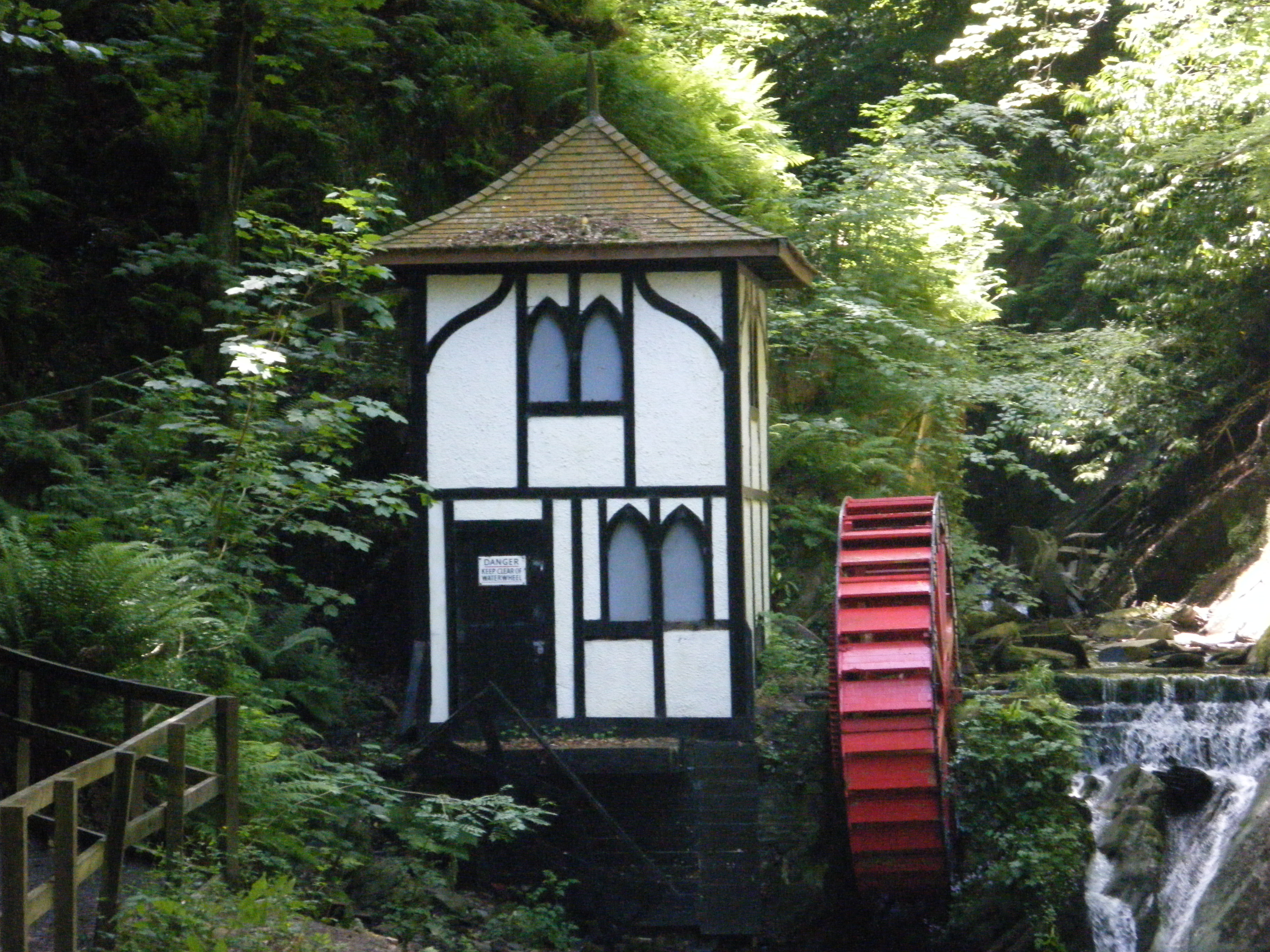 The water wheel in Groudle Glen known as "Little Isabella" in acknowledgement to the famous Laxey Wheel.